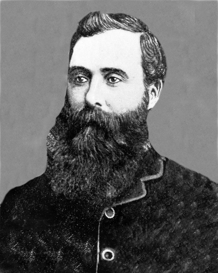 Thomas Peacock was Mayor of Auckland City from 1878-1980